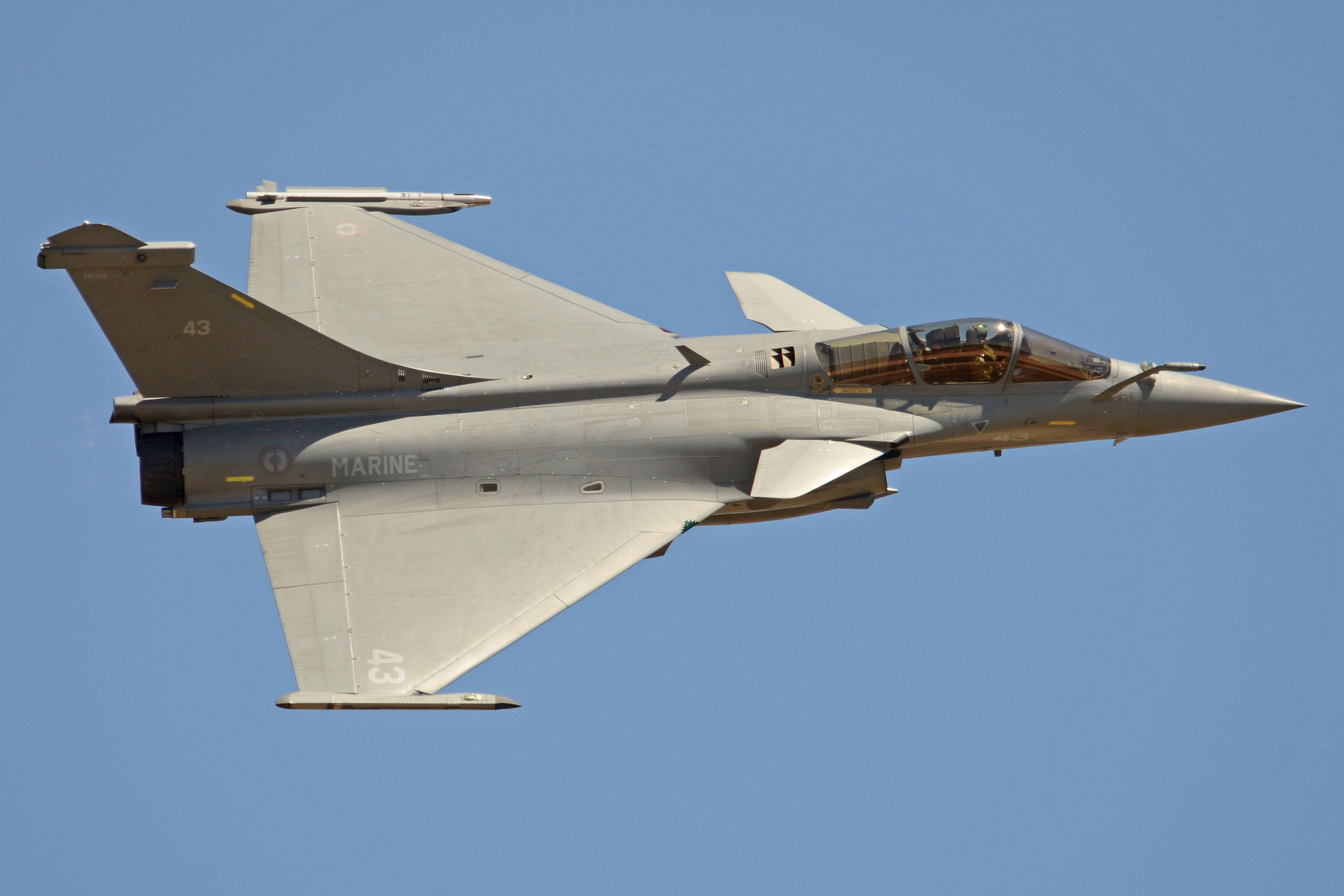 Operated by Flottille 12F, Aeronavale, based at Landivisiau. Seen during a practice display routine at Zaragoza Air Base, Spain, during the 2016 NATO Tiger Meet (NTM). 20th May 2016